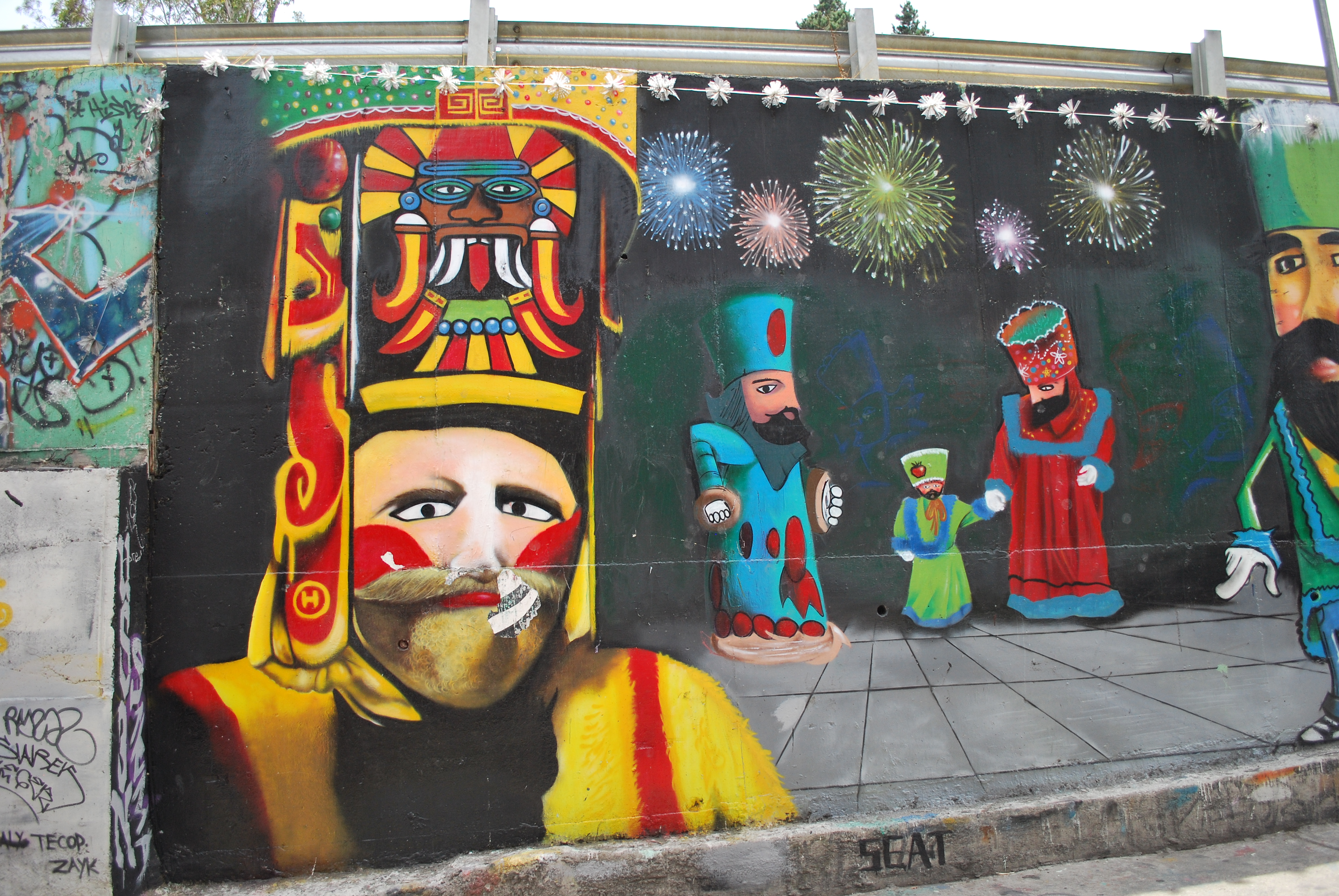 Grafitti mural in San Andres Totoltepec, Tlalpan, Mexico City